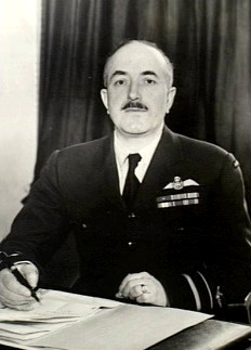 London, England. C. 1942-10. Portrait of Air Vice Marshal F. H. McNamara VC CBE, Air Officer Commanding, RAAF Overseas HQ.